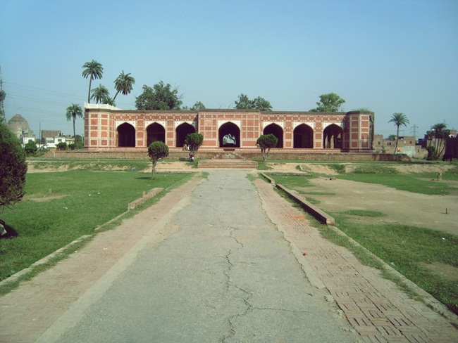 Tomb of Nur Jahan This is a photo of a monument in Pakistan identified as the PB-91